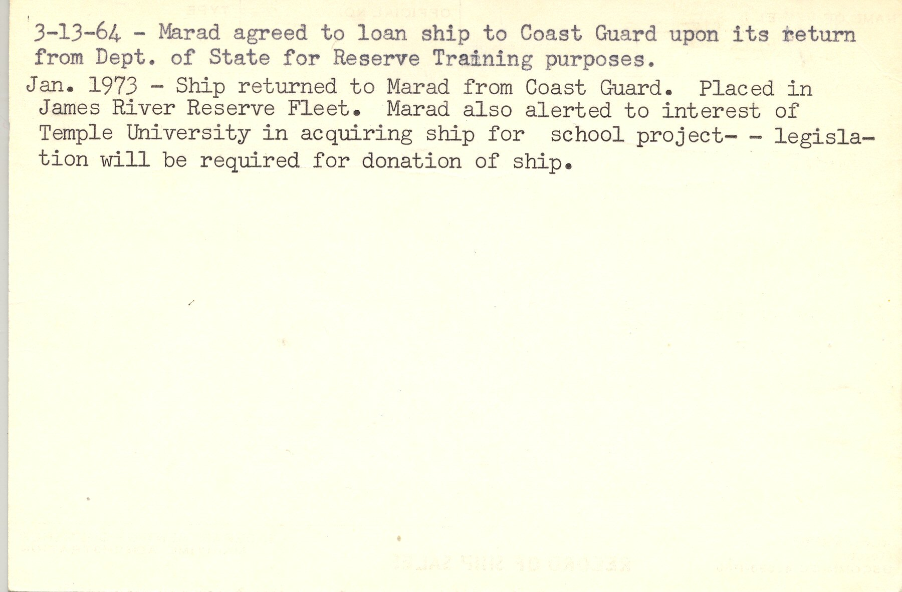 US Department of Transportation MARAD document for USCGC Courier 410 WAGR WTR that states the final decommission of the ship.